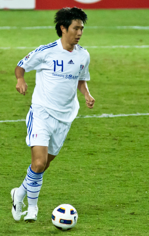 Oh Beom-Seok playing for Suwon Bluewings in the 2011 Asian Champions League against Sydney FC in Sydney, Australia.